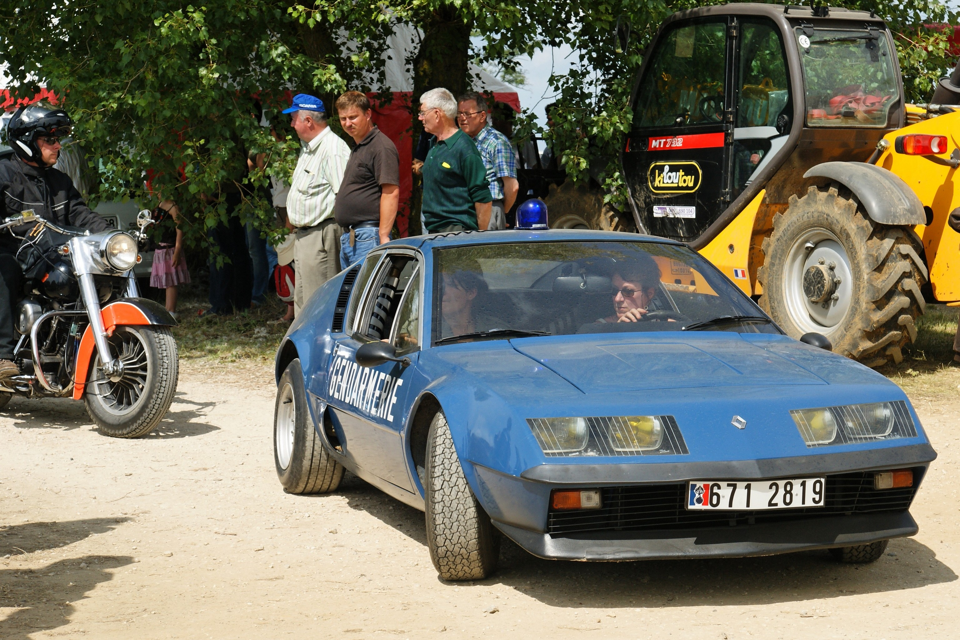 Car shown at La Locomotion en Fête.One of the seven 1977-1980 Alpine A310 V6 who was part of the BRI (Brigade d'Intervention Rapide / Rapid Intervention Squad) of the Gendarmerie. Like its "twin" 671 2816, it belongs now to the non-public automotive museum of the Gendarmerie (fr).